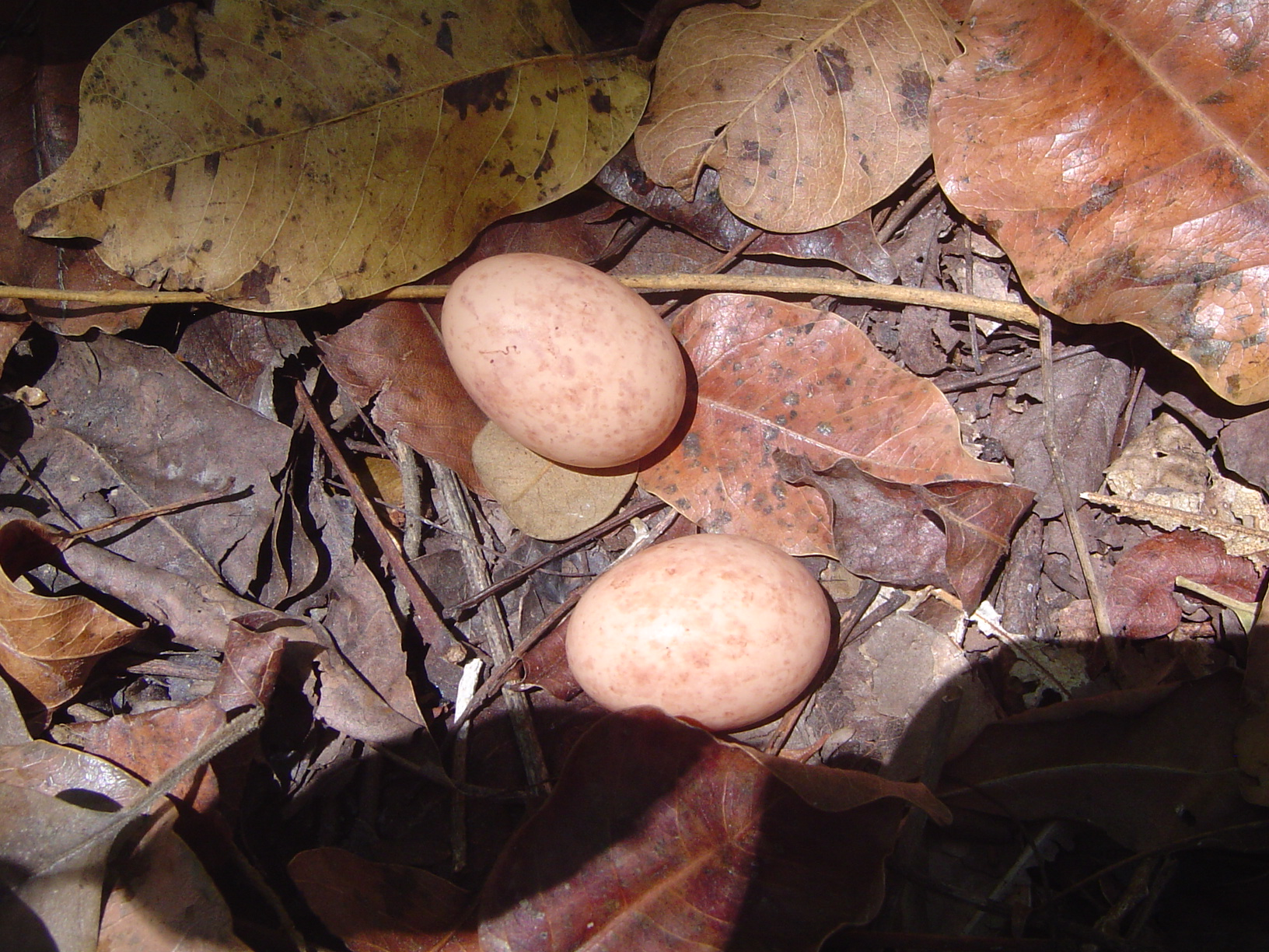 Nest and eggs of Nyctidromus Albicollis on one of the 'Zoológico Petencito' trails in Petén, Guatemala.